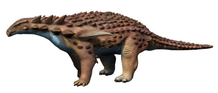 Restoration of Borealopelta markmitchelli.